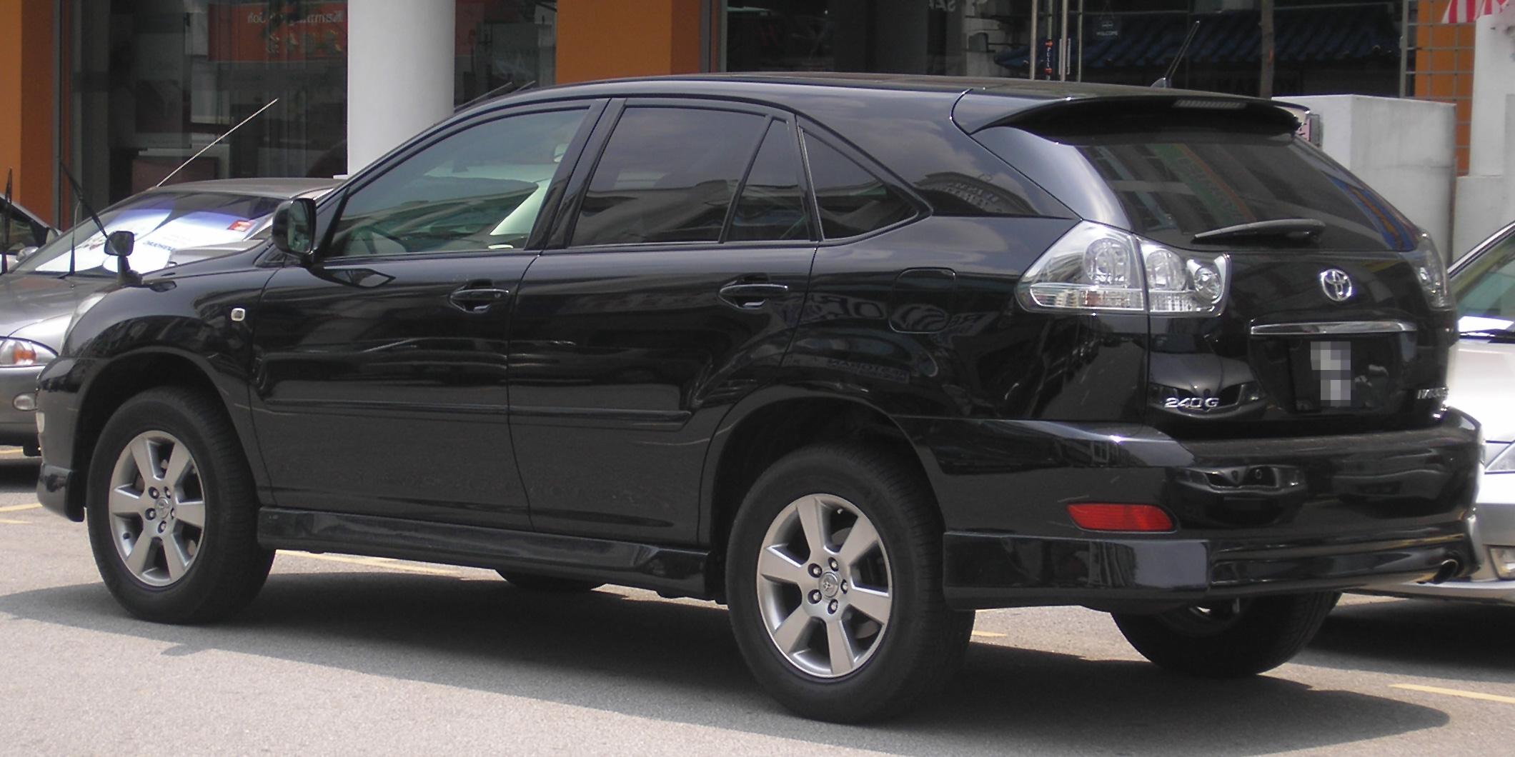 Rear-side shot of an second generation Toyota Harrier, in Serdang, Selangor, Malaysia.